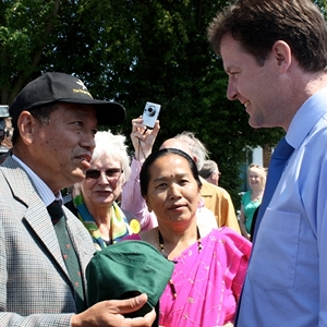 Nick Clegg, Leader of the Liberal Democrats visited Maidstone and Weald in June, 2009, to meet Gurkha veterans and their families to celebrate the success of their joint campaign for the right to live in Britain.